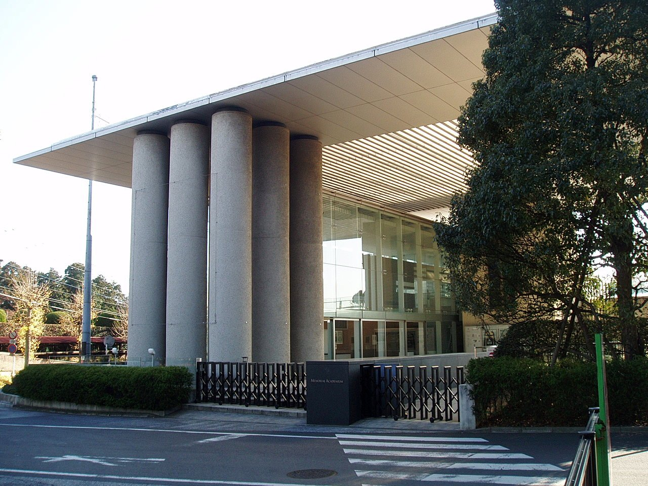 Toin Memorial Academium, built in 2001